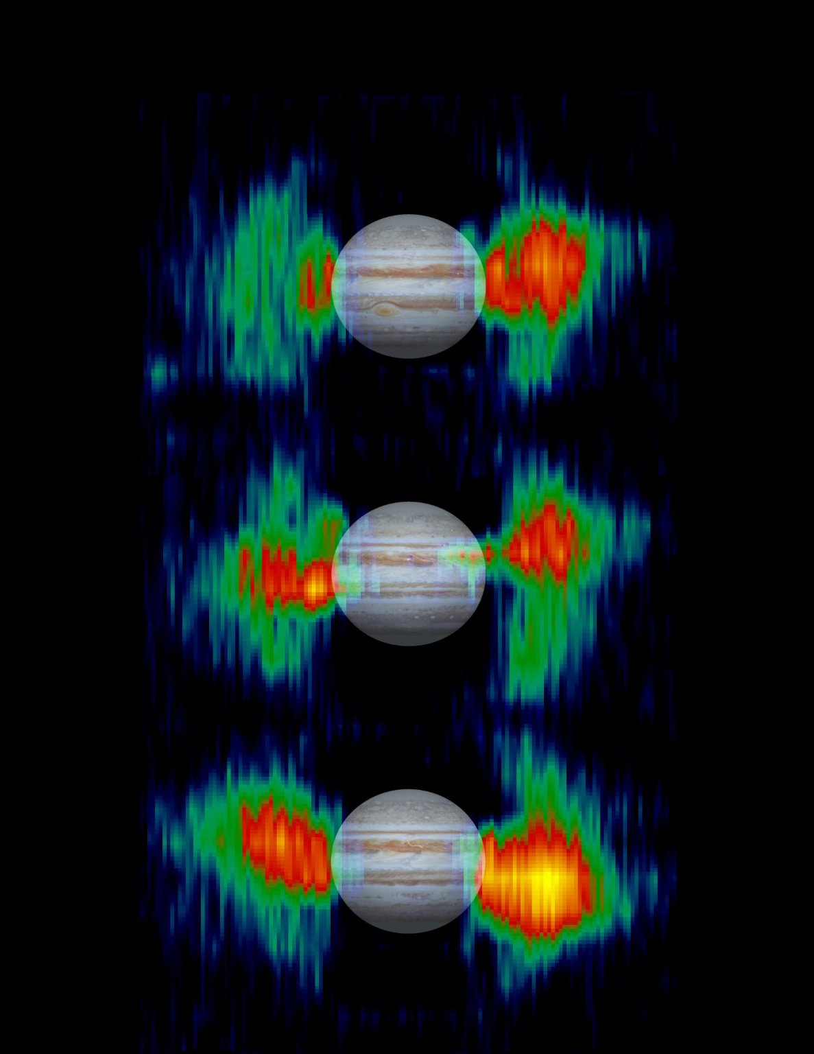 Details in radiation belts close to Jupiter are mapped from measurements that NASA's Cassini spacecraft made of radio emission from high-energy electrons moving at nearly the speed of light within the belts. The three views show the belts at different points in Jupiter's 10-hour rotation. A picture of Jupiter is superimposed to show the size of the belts relative to the planet. Cassini's radar instrument, operating in a listen-only mode, measured the strength of microwave radio emissions at a frequency of 13.8 gigahertz (13.8 billion cycles per second or 2.2 centimeter wavelength). The results indicate the region near Jupiter is one of the harshest radiation environments in the solar system. From Earth-based radio telescopes, the telltale radio emissions would be swamped out by heat-generated radio emissions from Jupiter's atmosphere, but Cassini was close enough to Jupiter in January 2001 to differentiate between the emissions from the radiation belts and those from the atmosphere. The belts appear to wobble as the planet turns because they are controlled by Jupiter's magnetic field, which is tilted in relation to the planet's poles. For more information about the Saturn-bound Cassini spacecraft and its observations of Jupiter, see the Cassini home page, [1]. Cassini is a cooperative project of NASA, the European Space Agency and the Italian Space Agency. The Jet Propulsion Laboratory, a division of the California Institute of Technology in Pasadena, manages the Cassini mission for NASA's Office of Space Science, Washington, D.C.